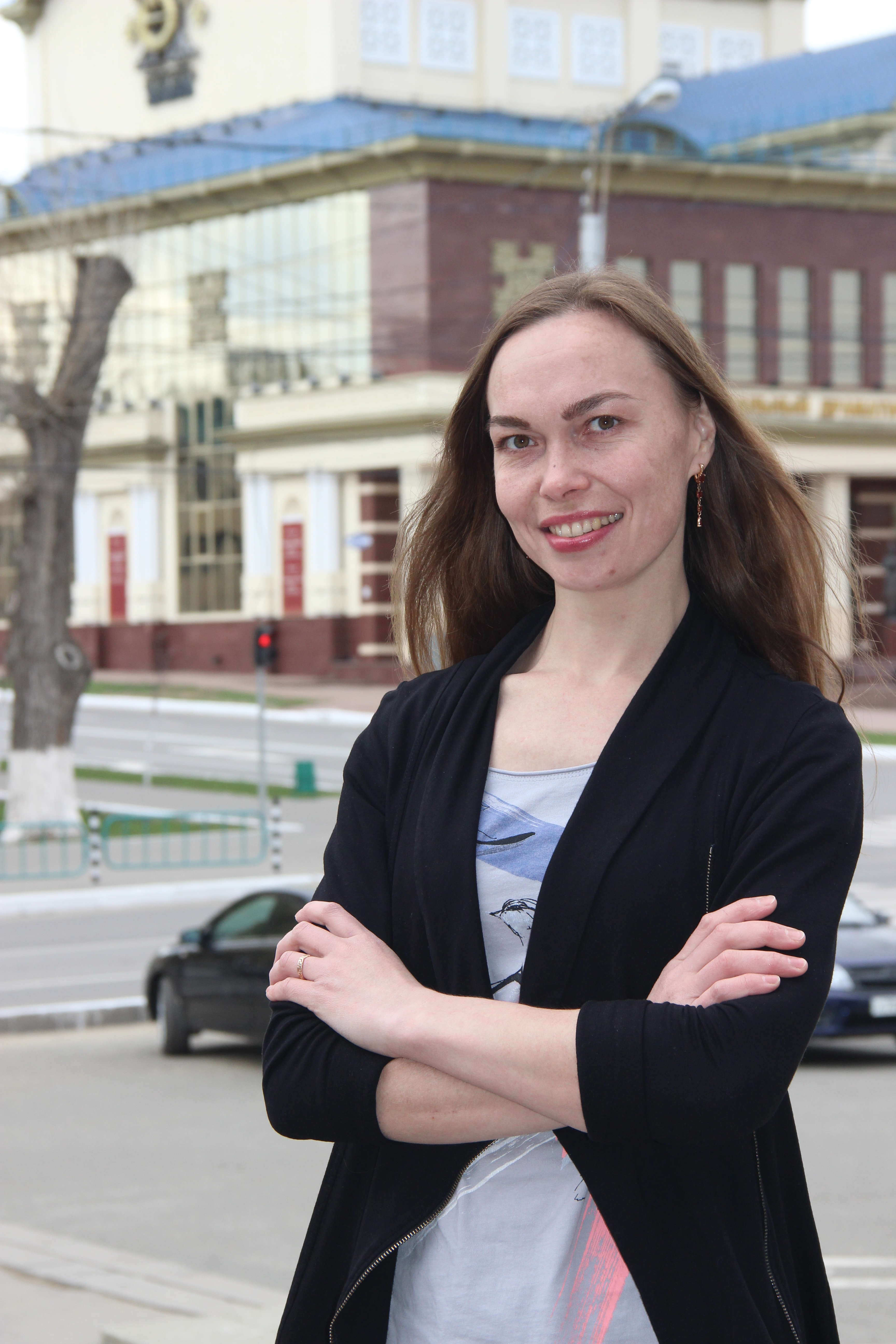 Mokshanova, Tatyana Petrovna